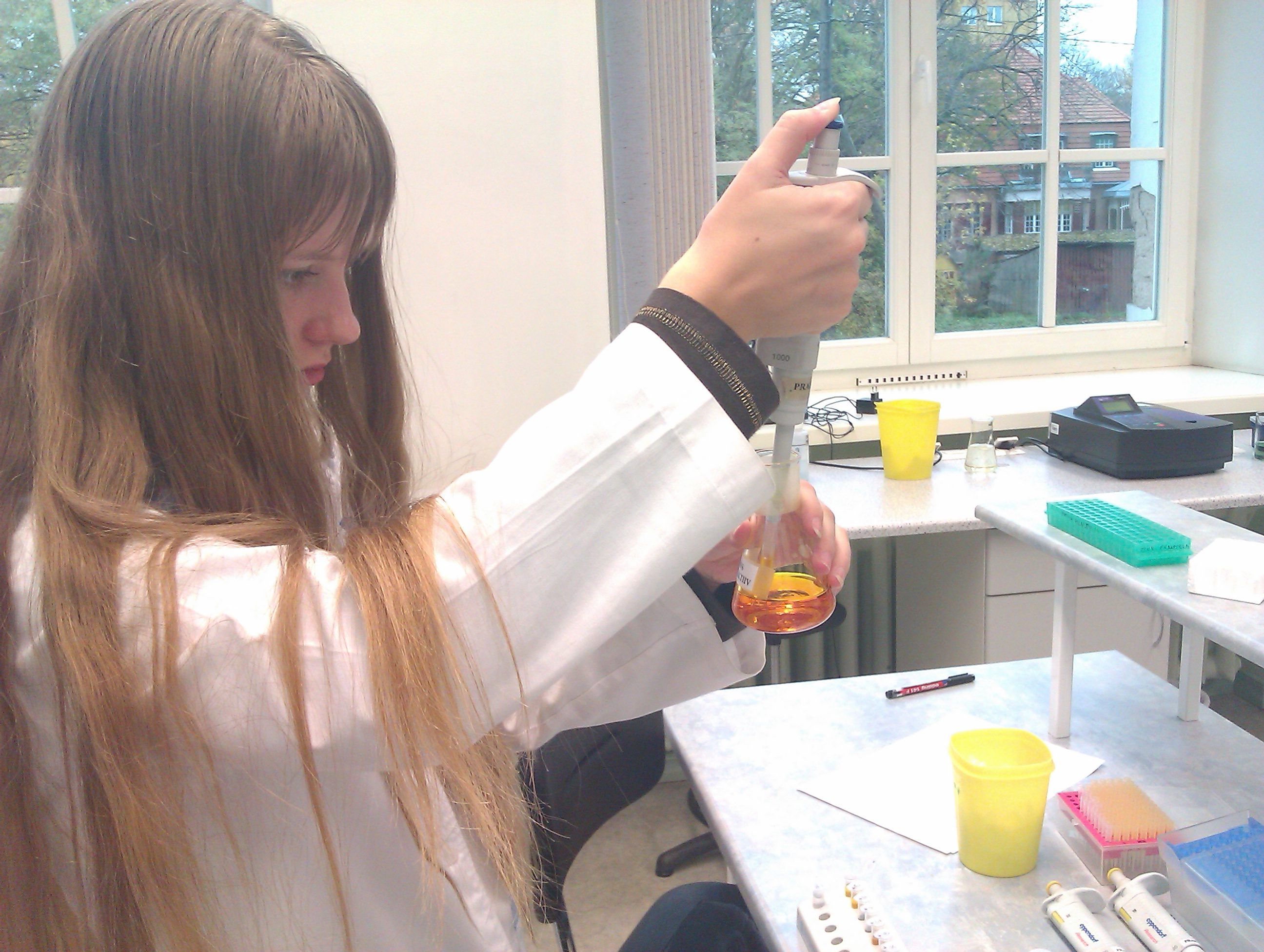 A scientist Pipetting a solution with an automatic pipetteEesti: Noor teadlane Mette Purde pipeteerimas automaatpipettiga lahust IJSO (International Junior Science Olympiad) 2010 treeninglaagris.